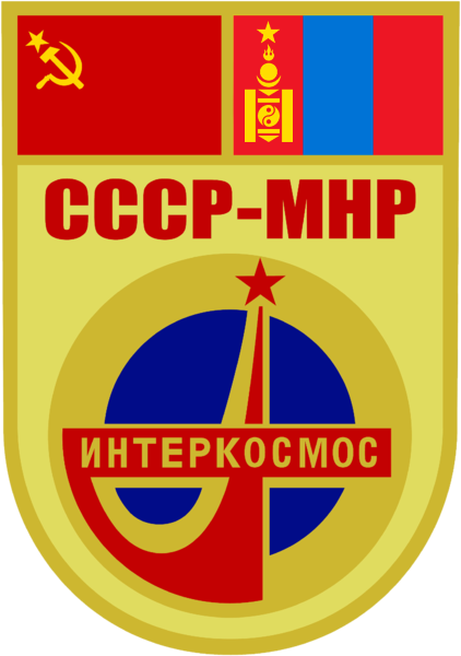 Soyuz 39 patch